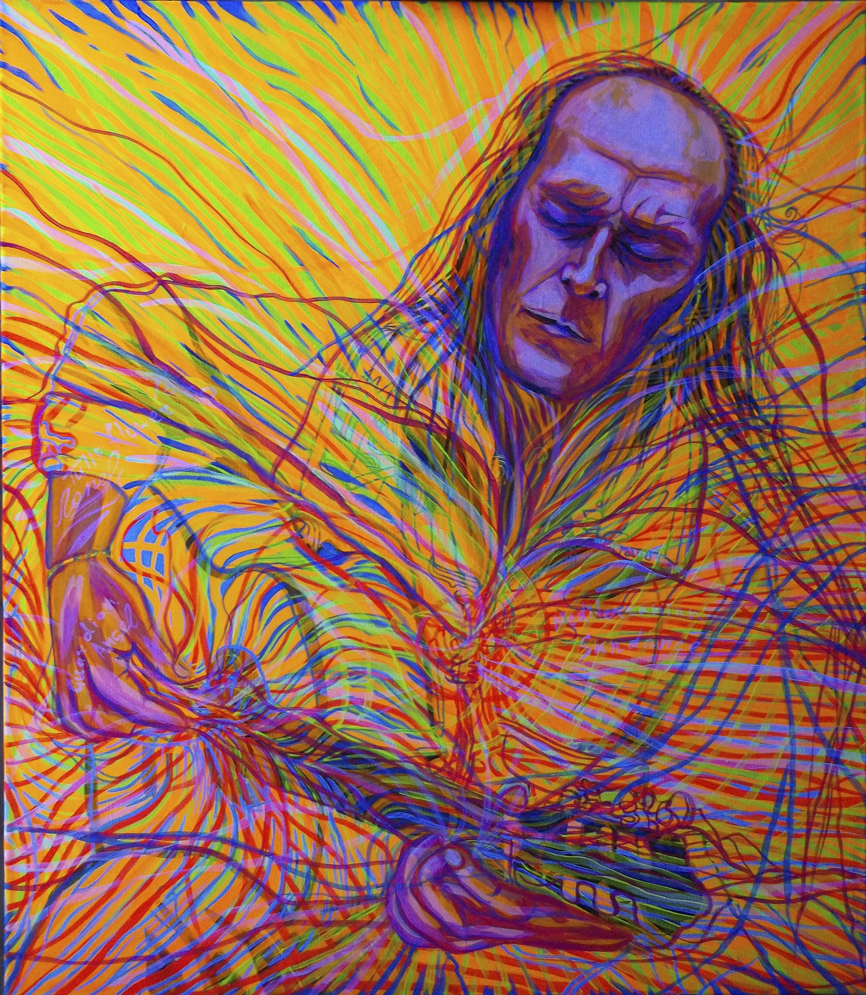 Painting by Lola Lonli. "Paco de Lucia and Guardian Angel". 2012. Canvas, egg tempera with fluorescent pigments, 70x60. Photo in Black light.